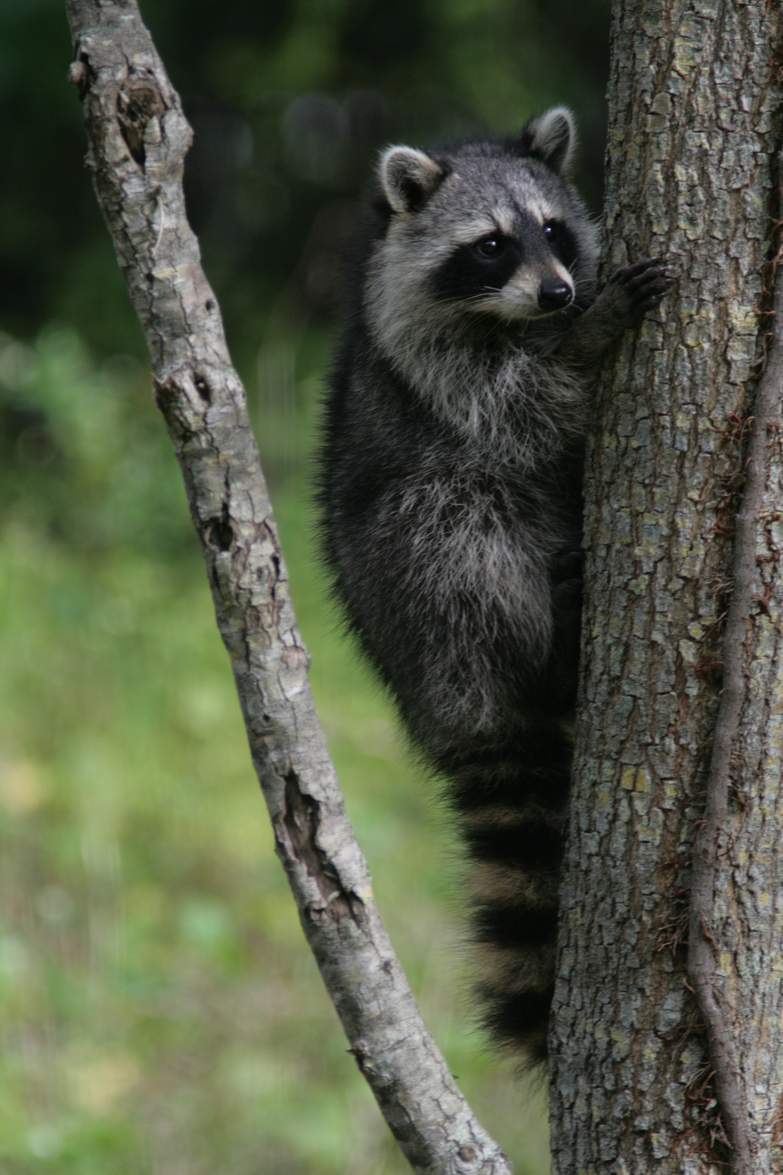 Racoon clinging to a tree in Hugh Taylor Birch park in Fort lauderdale, Florida.